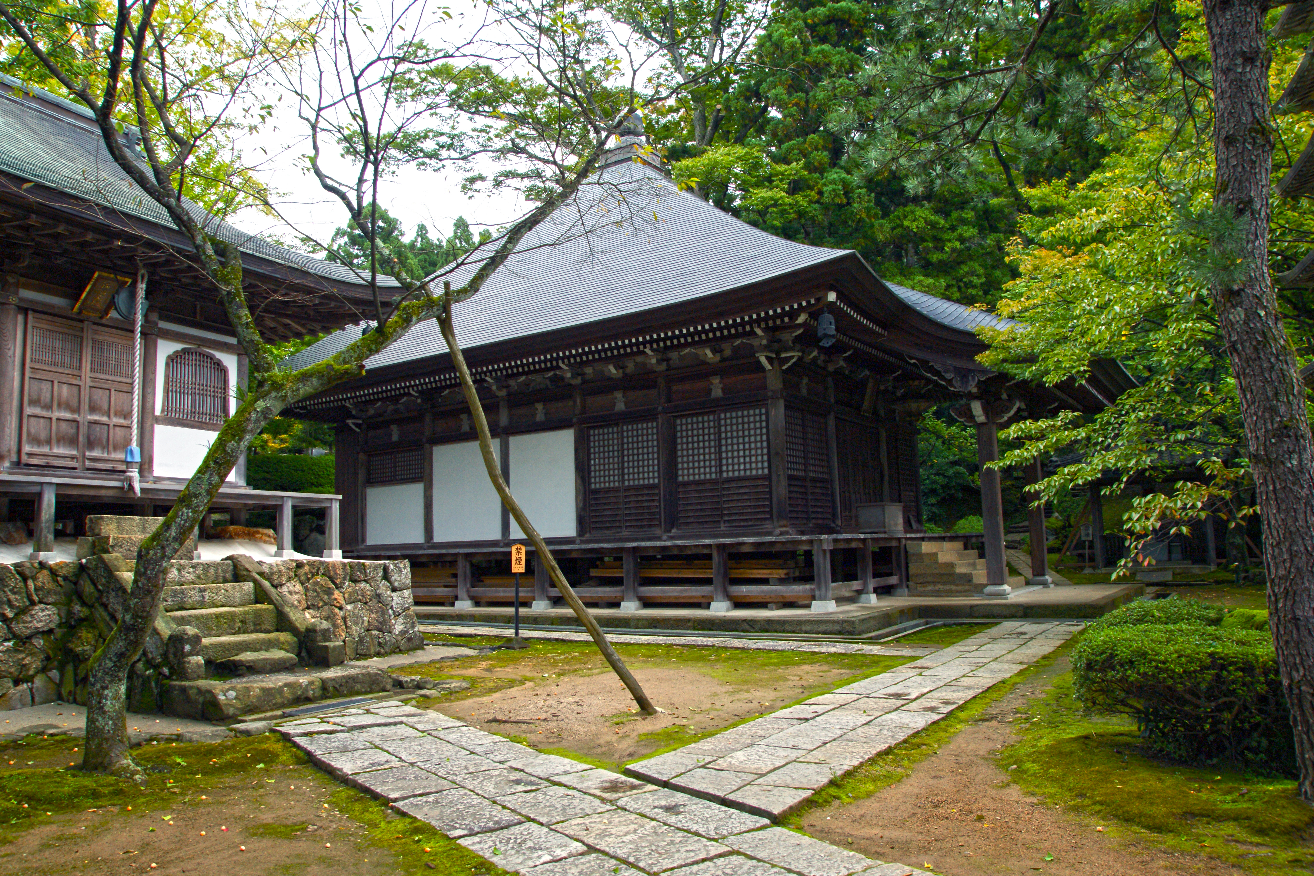 Daijoji in Kami, Hyogo prefecture, Japan